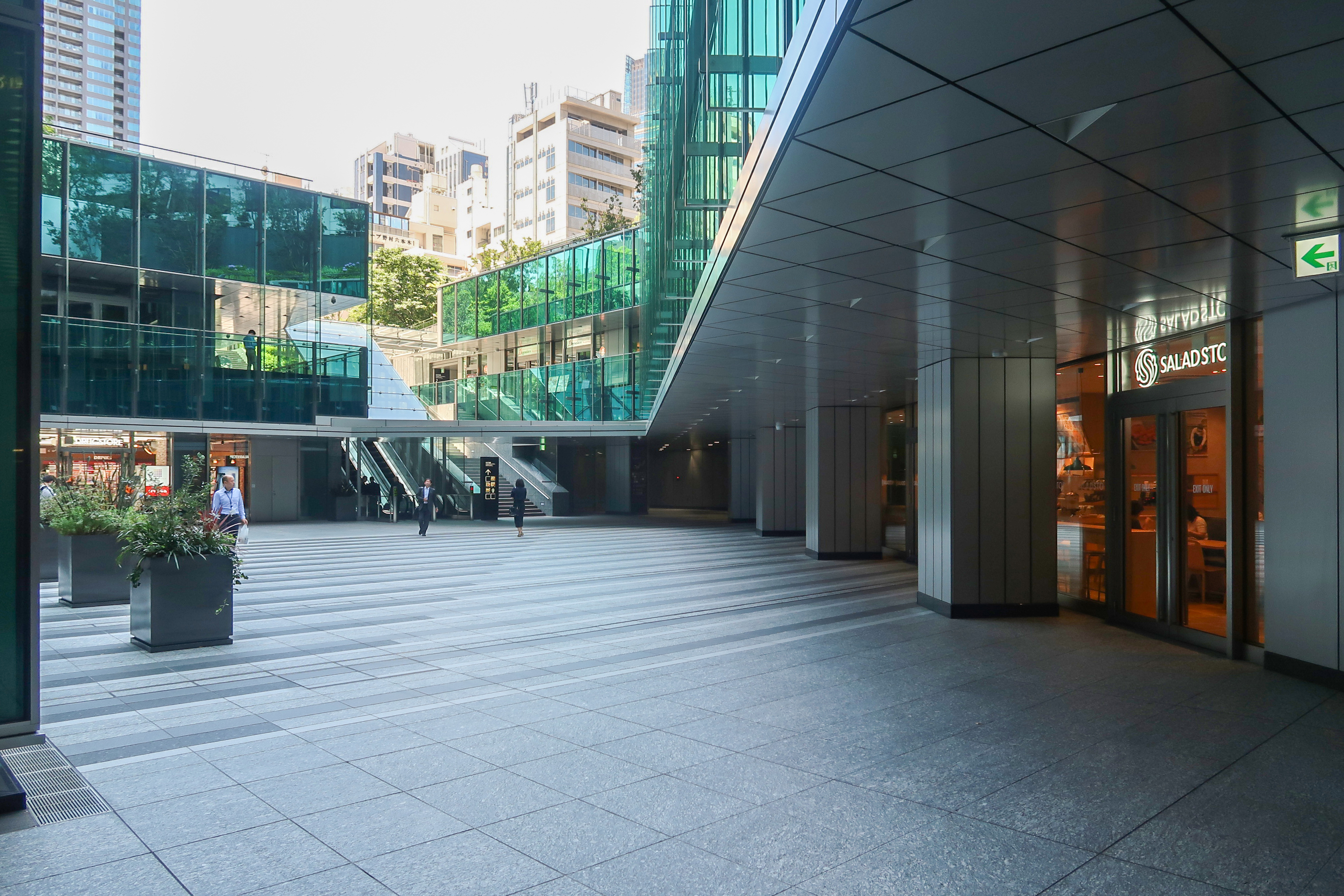 Sumitomo Fudosan Roppongi Grand Tower Courtyard